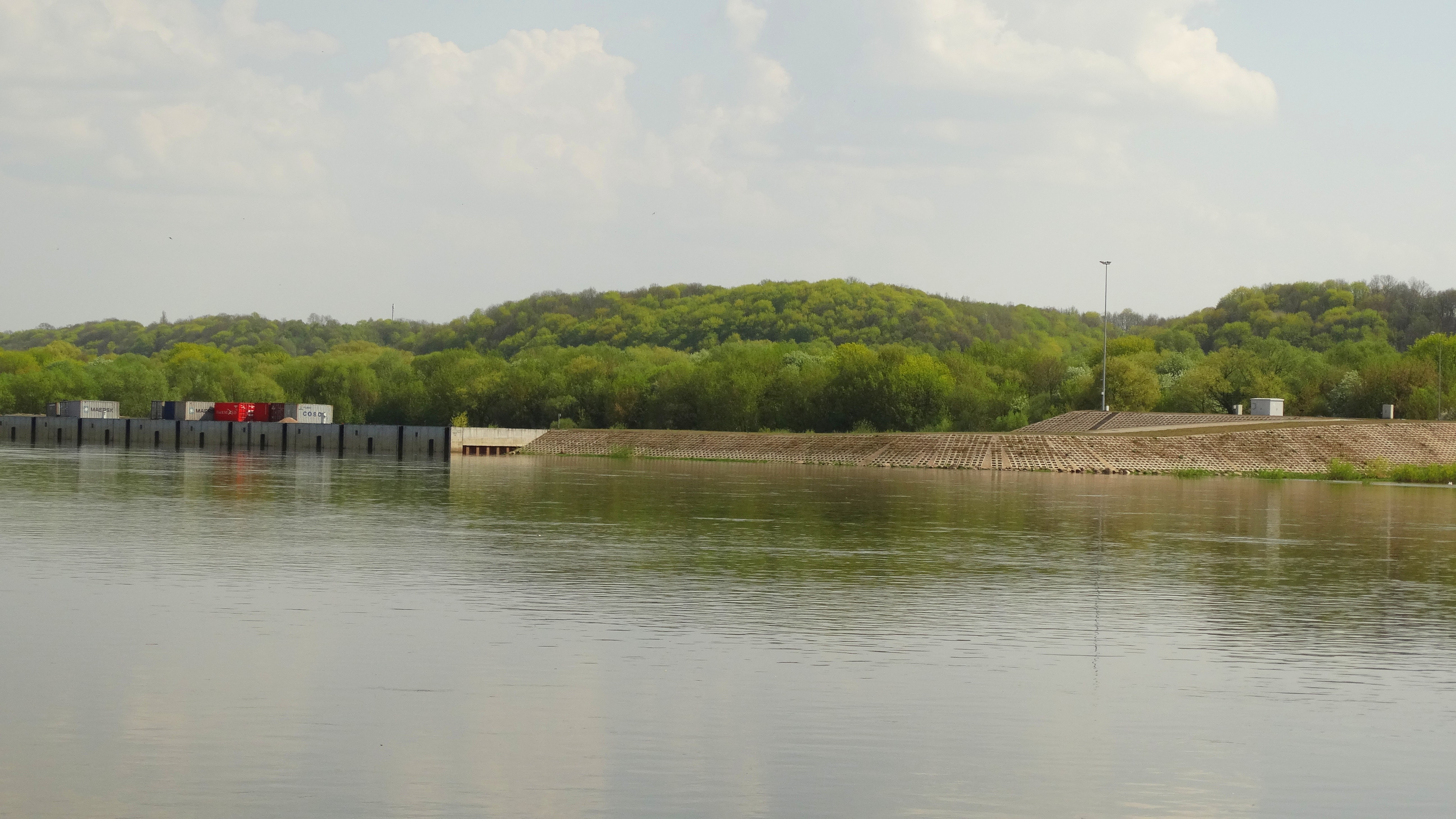 Neman River port, Marvelė, Kaunas, Lithuania